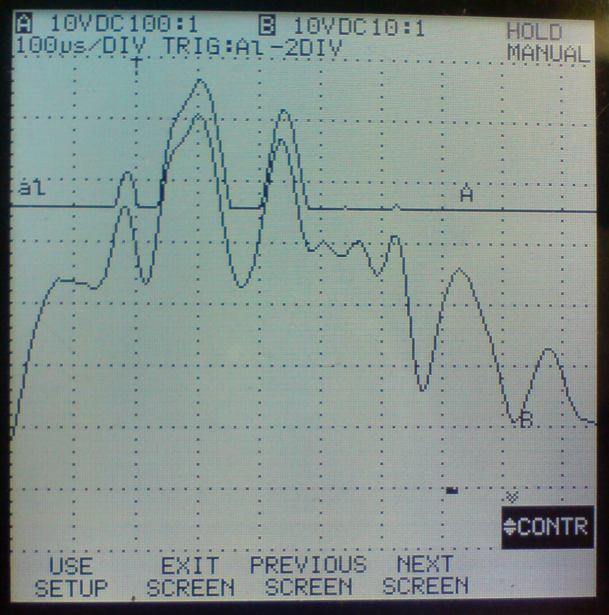 Modulation of the positive rail voltage of a class H amplifier. The default supply voltage is about 45V, if required the voltage is boosted about 8V higher than the actual output voltage.